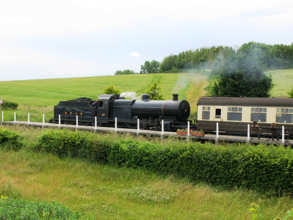 Somerset and Dorset Joint Railway 7F Class number 88 calls at Doniford Halt on the West Somerset Railway, England, with a train to Bishops Lydeard.